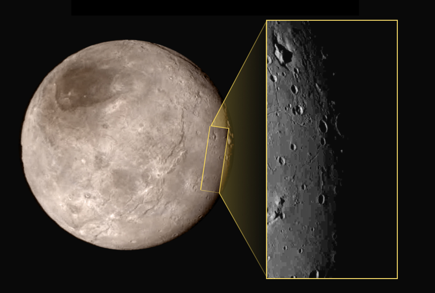 July 16, 2015 New Horizons Close-Up of Charon’s ‘Mountain in a Moat’ Charon IMAGE CAPTION: This new image of an area on Pluto's largest moon Charon has a captivating feature—a depression with a peak in the middle, shown here in the upper left corner of the inset. The image shows an area approximately 240 miles (390 kilometers) from top to bottom, including few visible craters. “The most intriguing feature is a large mountain sitting in a moat,” said Jeff Moore with NASA’s Ames Research Center, Moffett Field, California, who leads New Horizons’ Geology, Geophysics and Imaging team. “This is a feature that has geologists stunned and stumped.” This image gives a preview of what the surface of this large moon will look like in future close-ups from NASA's New Horizons spacecraft. This image is heavily compressed; sharper versions are anticipated when the full-fidelity data from New Horizons' Long Range Reconnaissance Imager (LORRI) are returned to Earth. The rectangle superimposed on the global view of Charon shows the approximate location of this close-up view. The image was taken at approximately 6:30 a.m. EDT (10:30 UTC) on July 14, 2015, about 1.5 hours before closest approach to Pluto, from a range of 49,000 miles (79,000 kilometers).